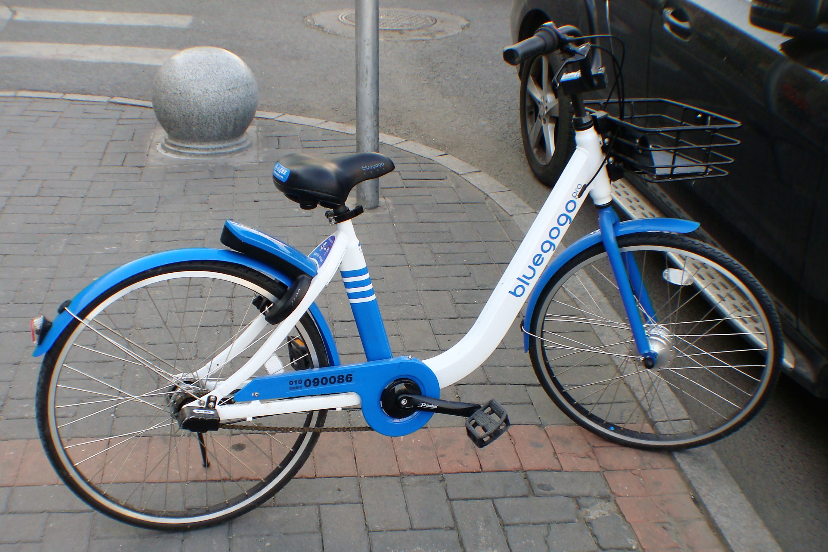 Bluegogo rental bicycle in Beijing sporting the newer, mainly white, colour scheme